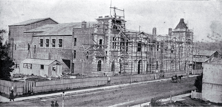 Construction of the Agricultural and Industrial Hall (later the City Municipal Chambers) in Manchester Street.